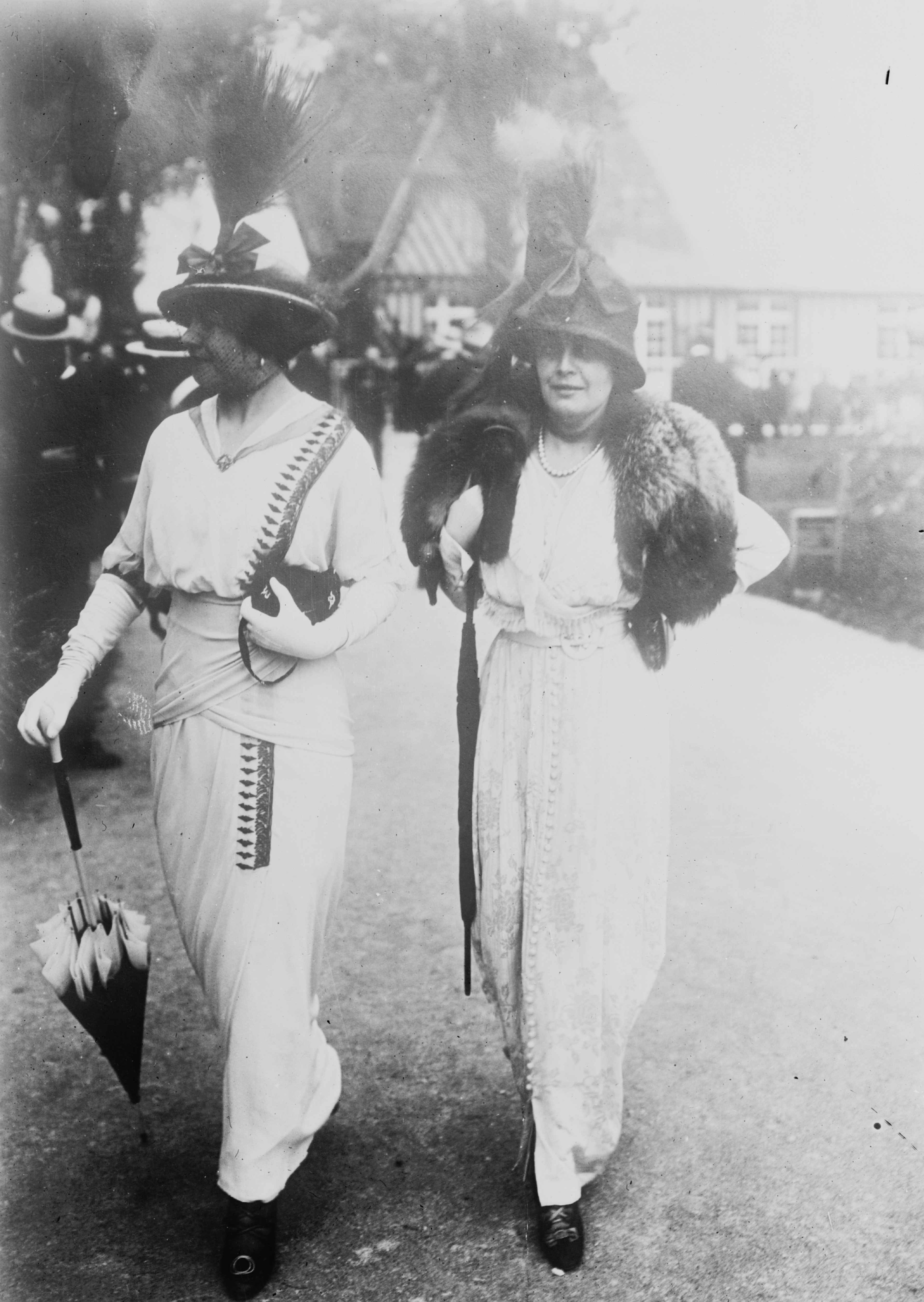 Fashions at Trouville- 1913